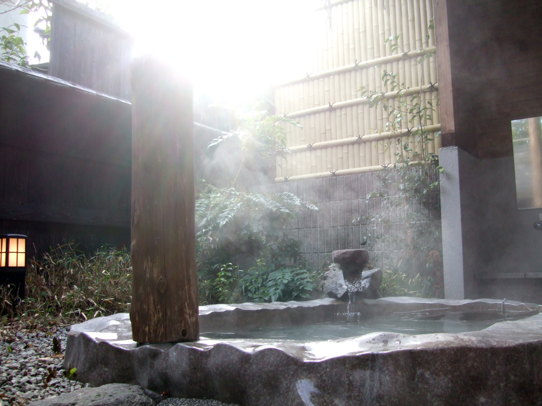 Japanese Onsen Bathtub（including outdoor）.Location:Yufuin Onsen「Yutei Kounokura（湯亭 香乃蔵）」.